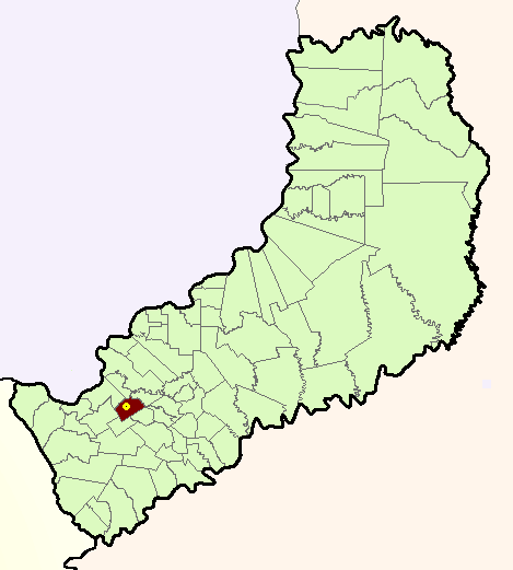 A map of Bonpland's municipio in Misiones province, Argentina. The big point is Bonpland town.